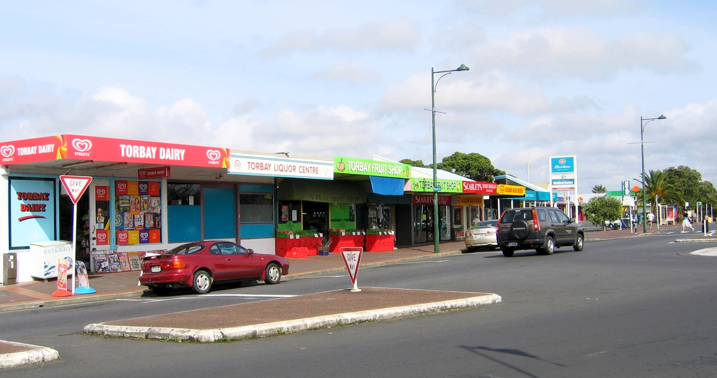 Torbay Shopping Centre has a Four Square; Torbay Dairy down the road; Video Ezy; four takeaway food stores; one roast shop; one Thai and two Indian restaurants; the Torbay Community Association; four hairdressers; a cafe; two bakeries; a dentist; two doctor's clinics; a dog grooming parlour; 1 real estate agent, an op-shop, a church office and two ATM's.